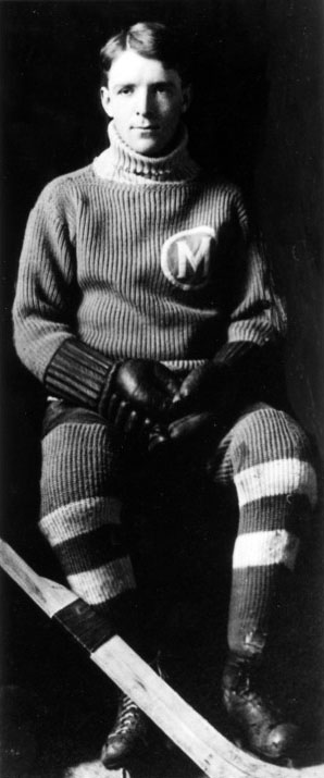 Hockey Hall of Fame player Steamer Maxwell while a member of the Winnipeg Monarchs.